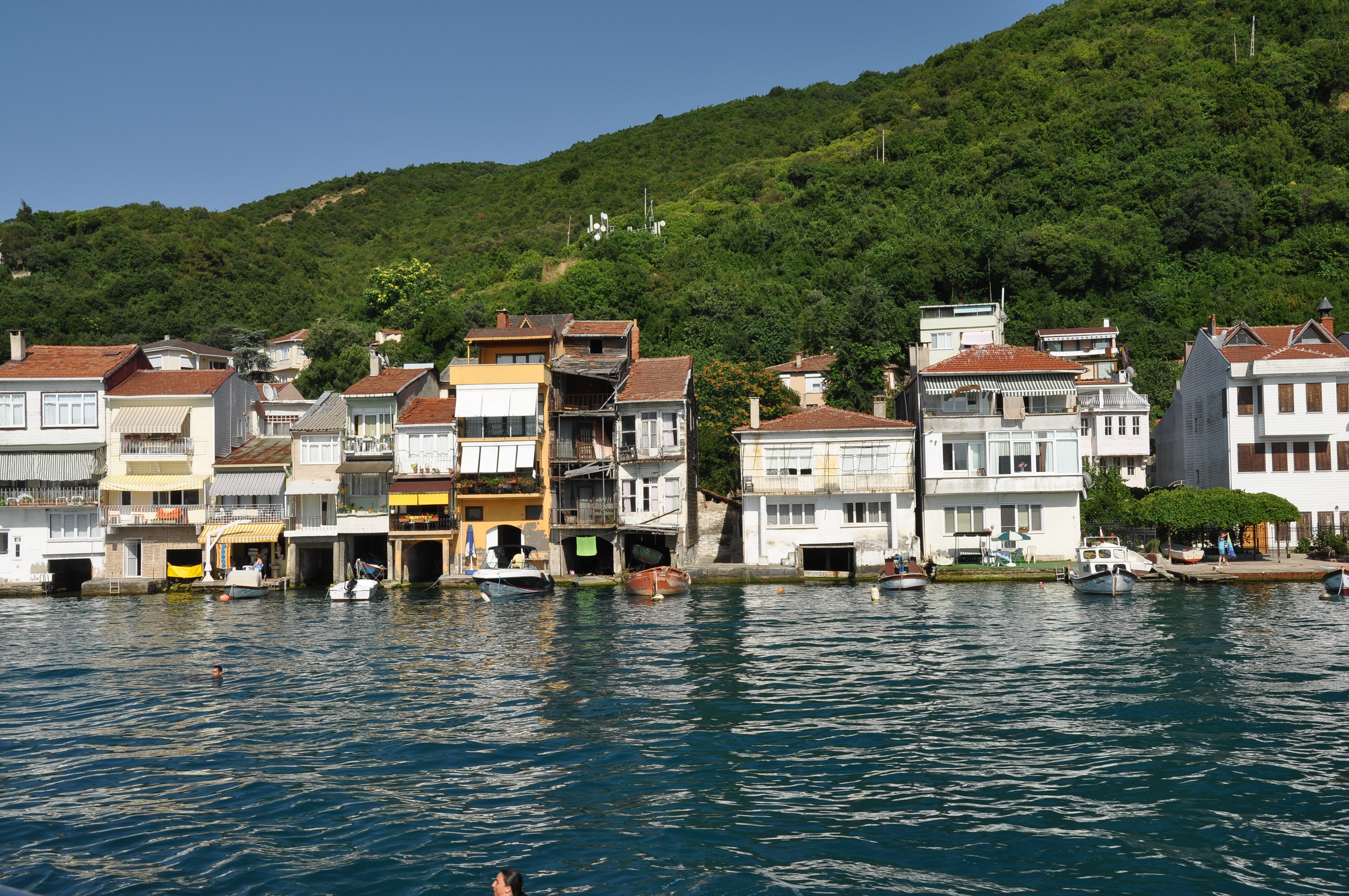 Anadolu Kavağı, the last harbour on the Asian coast of the Bosphorus before the Black Sea at the Beykoz district of Istanbul in Turkey.